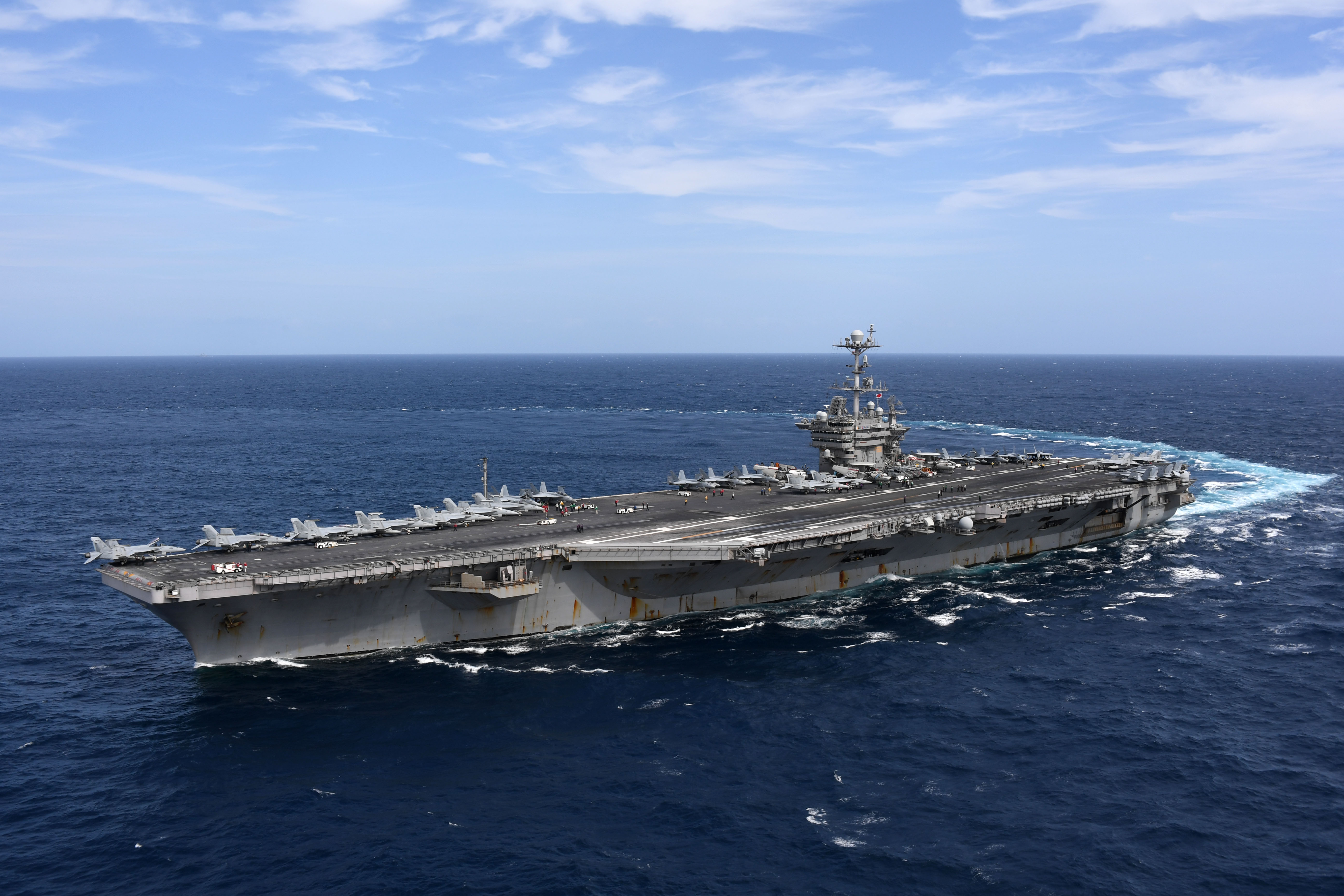 The U.S. Navy aircraft carrier USS Harry S. Truman (CVN-75) underway in the Atlantic Ocean on 11 September 2018. Harry S. Truman, with assigned Carrier Air Wing 1 (CVW-1), was deployed to the Atlantic Ocean since 28 August 2018.